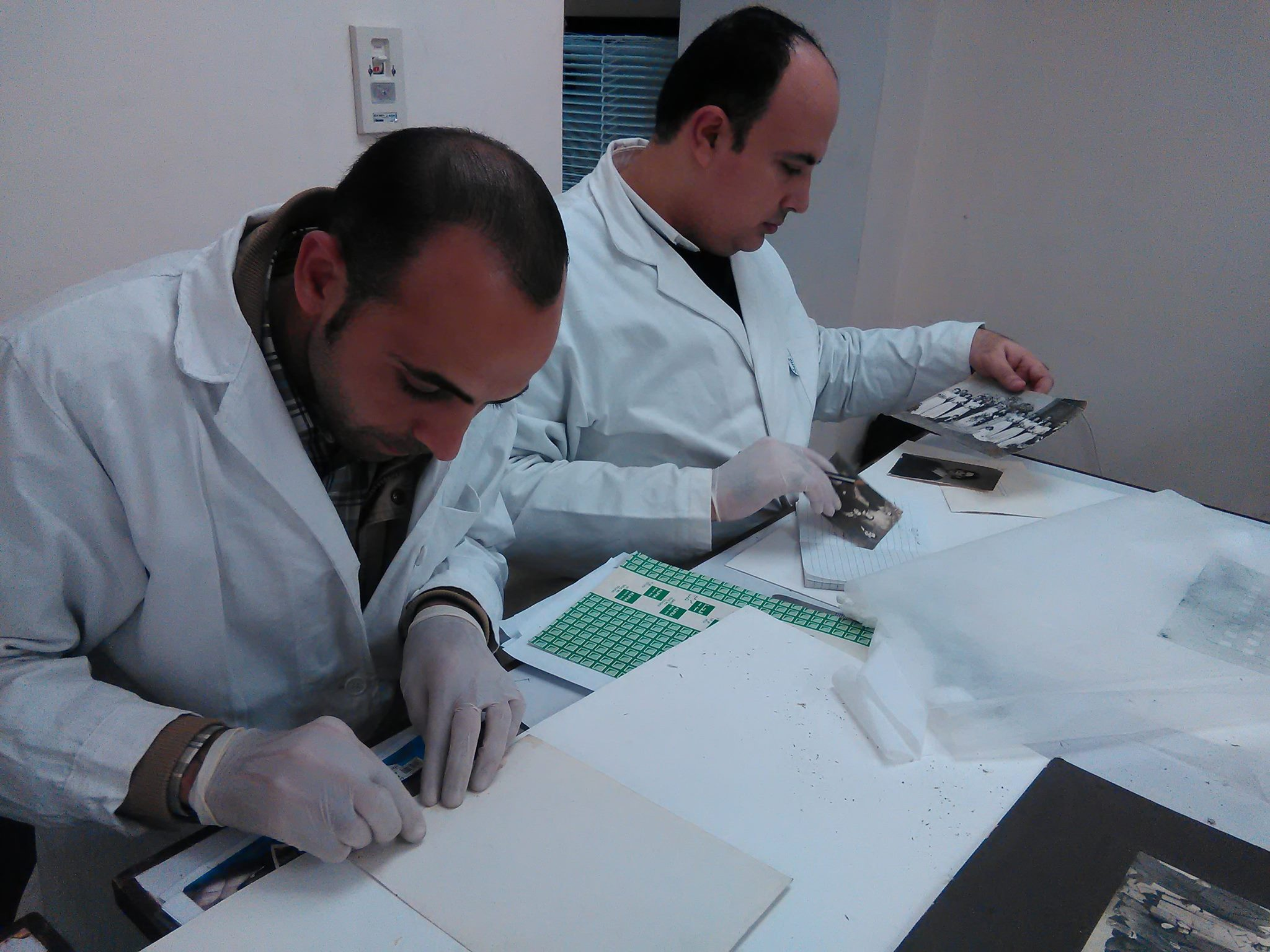 Students during photo conservation Practical session at EICAP (The International master Program in Conservation of Antique Photographs and Paper Heritage)